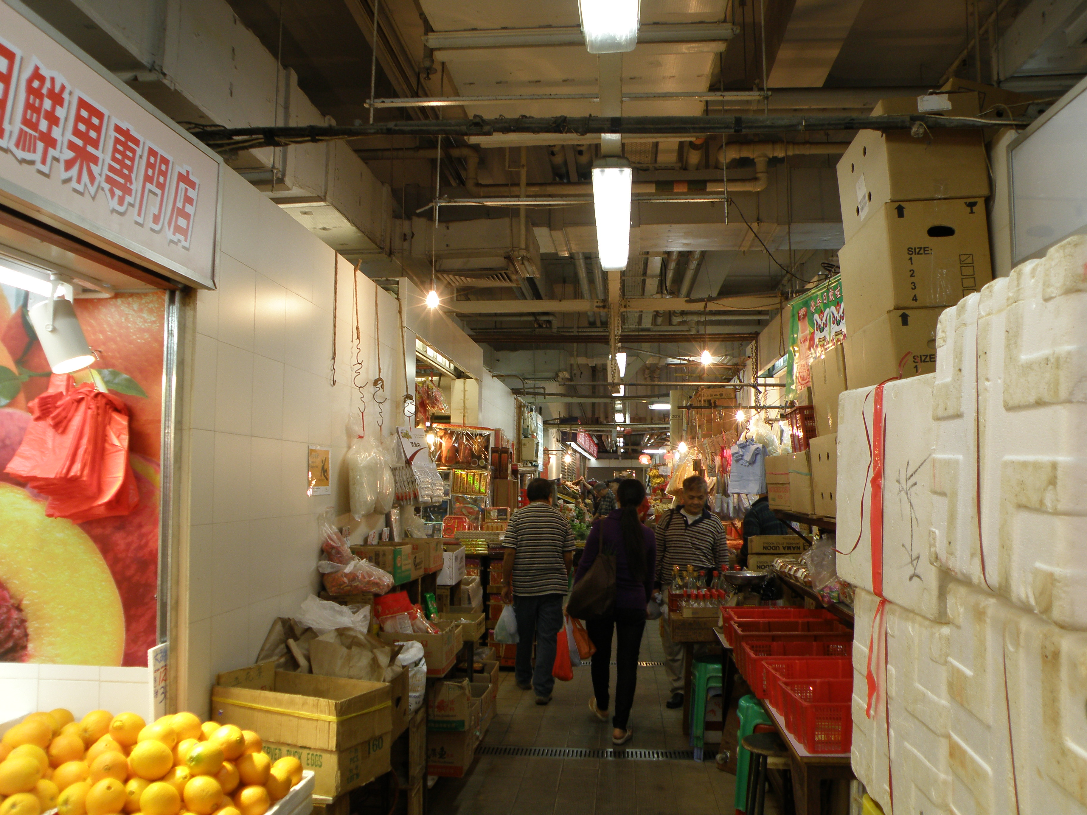 Mei Lam Market in Tai Wai, Hong Kong.